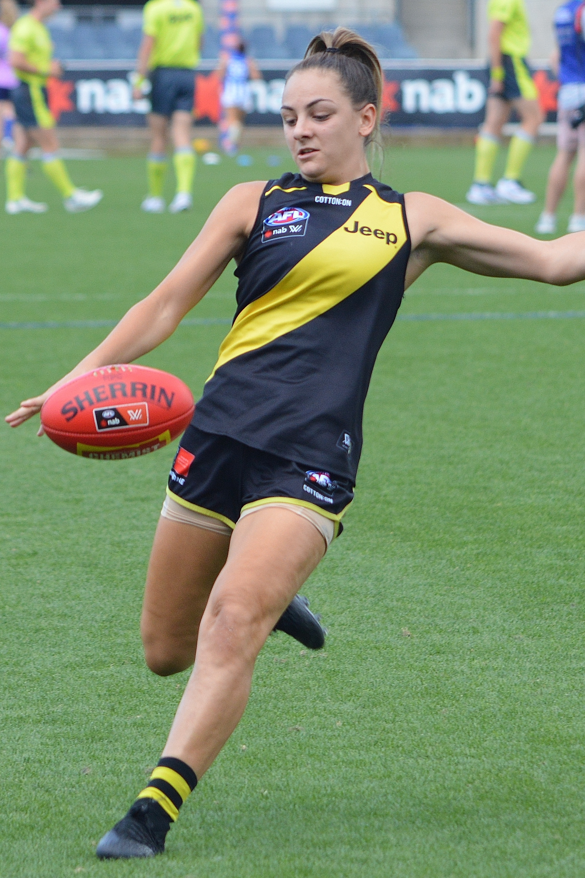 Mon Conti with Richmond during the round 3, 2020 AFL Women's match against North Melbourne at Ikon Park.